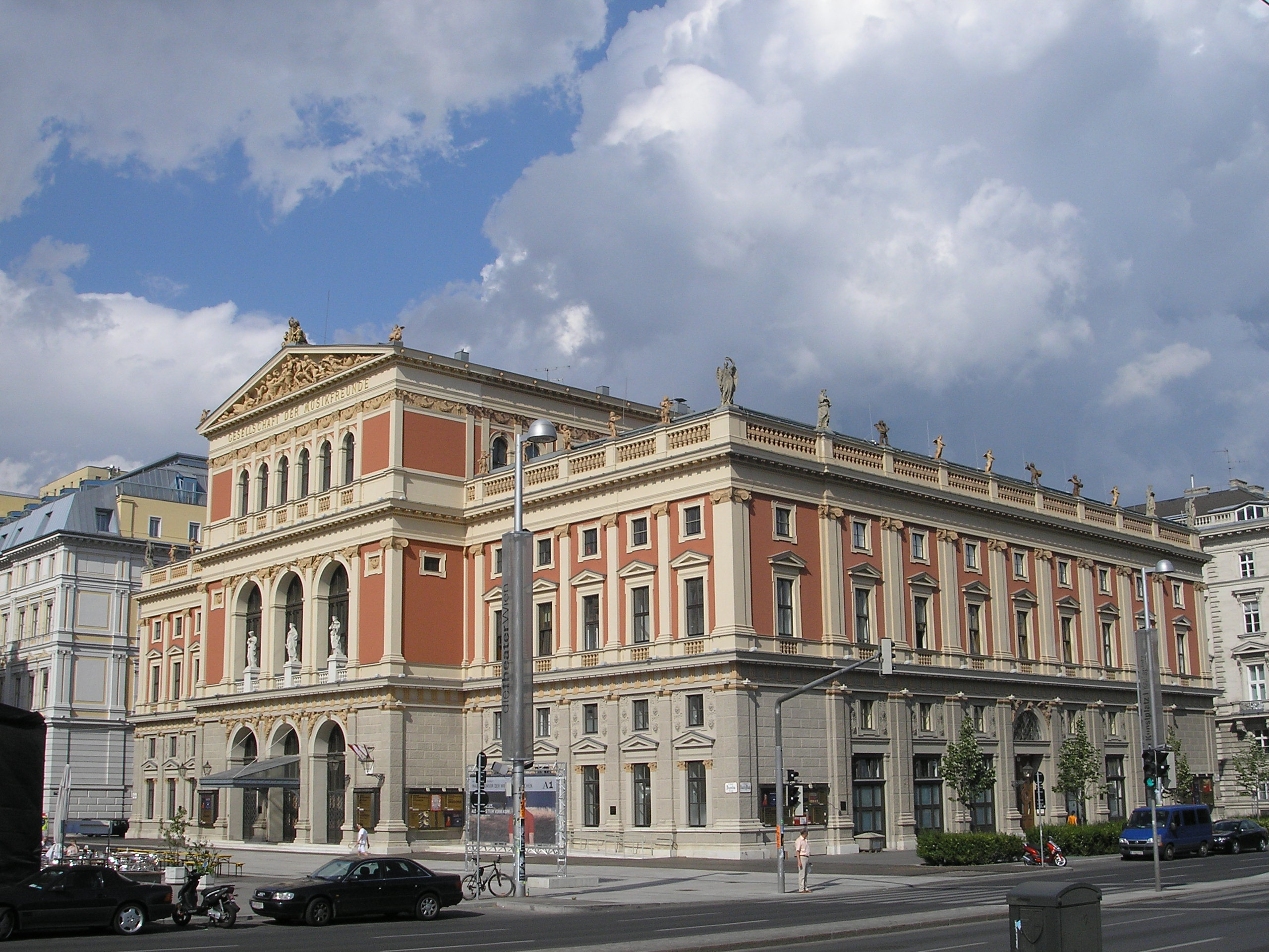 Image of the Musikverein in Vienna.